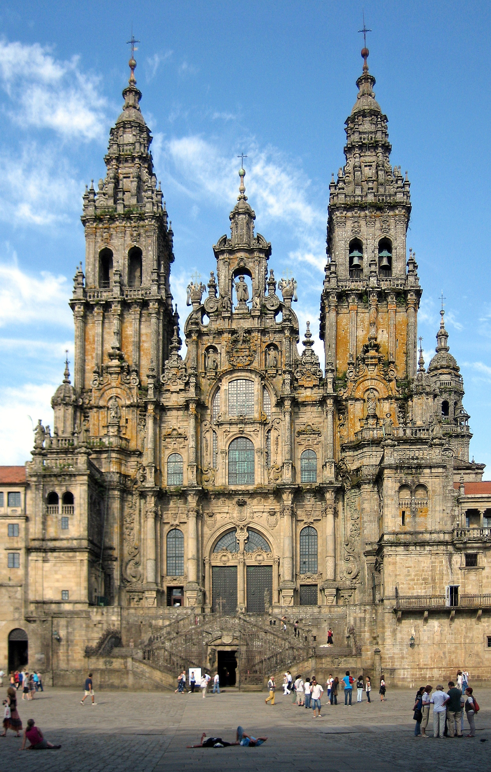 Cathedrale of Santiago de Compostela, Galicia, Spain.